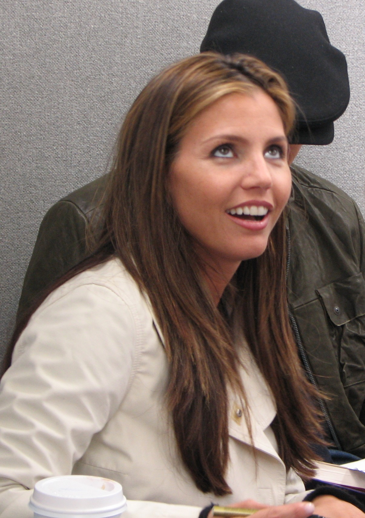 Actress Charisma Carpenter